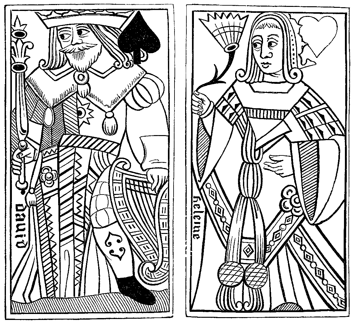 King of Spades and Queen of Hearts from a deck for Piquet